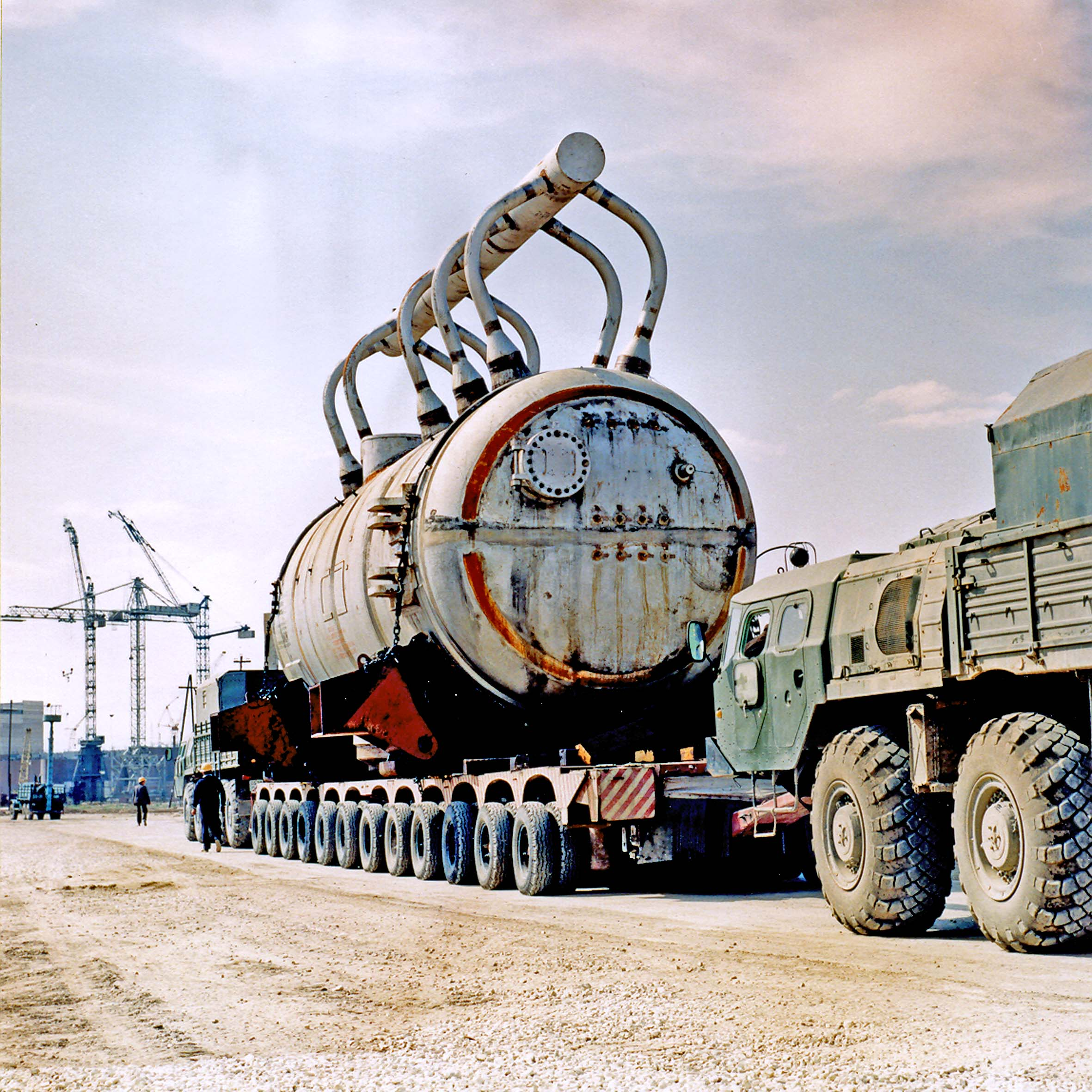 A horizontal steam generator for the Balakovo Nuclear Power Plant